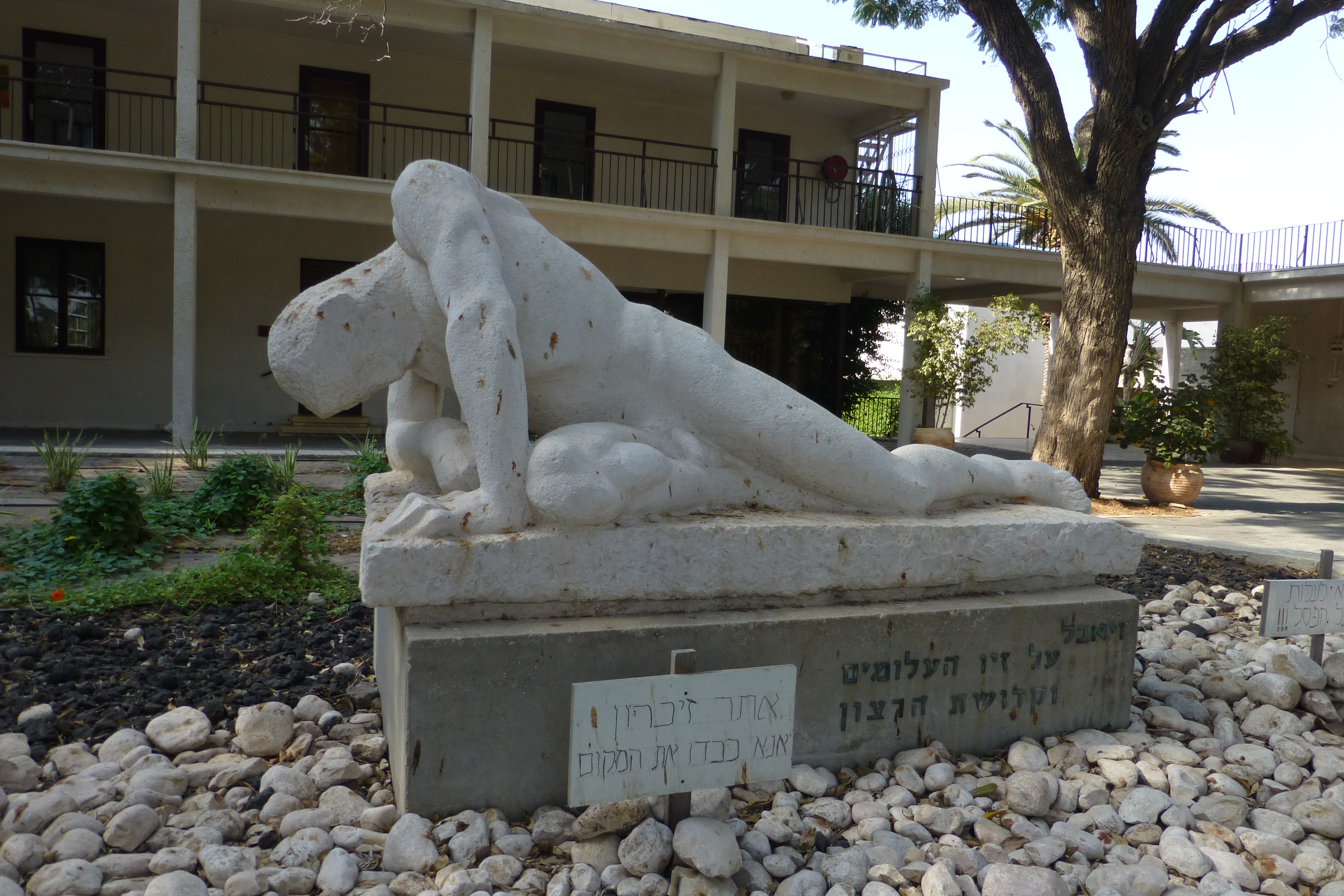 Sereni House